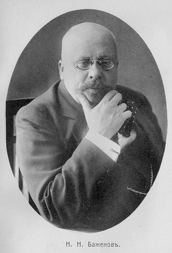 Nikolai N. Bazhenov, Russian psychiatrist